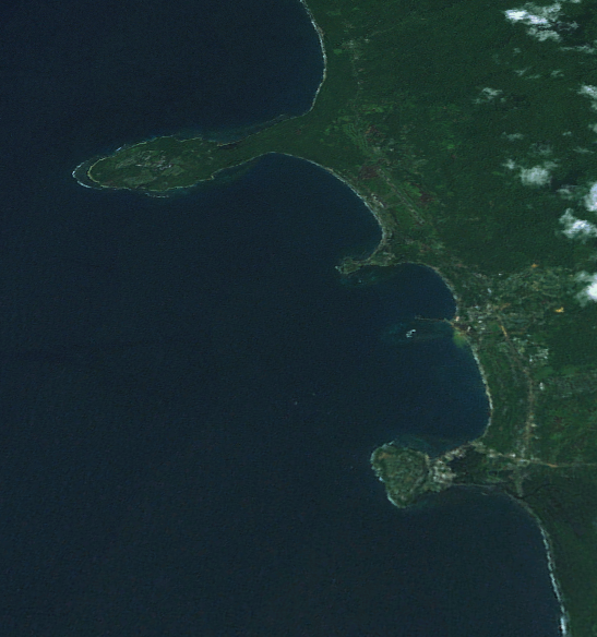 NASA World Wind image of Wewak